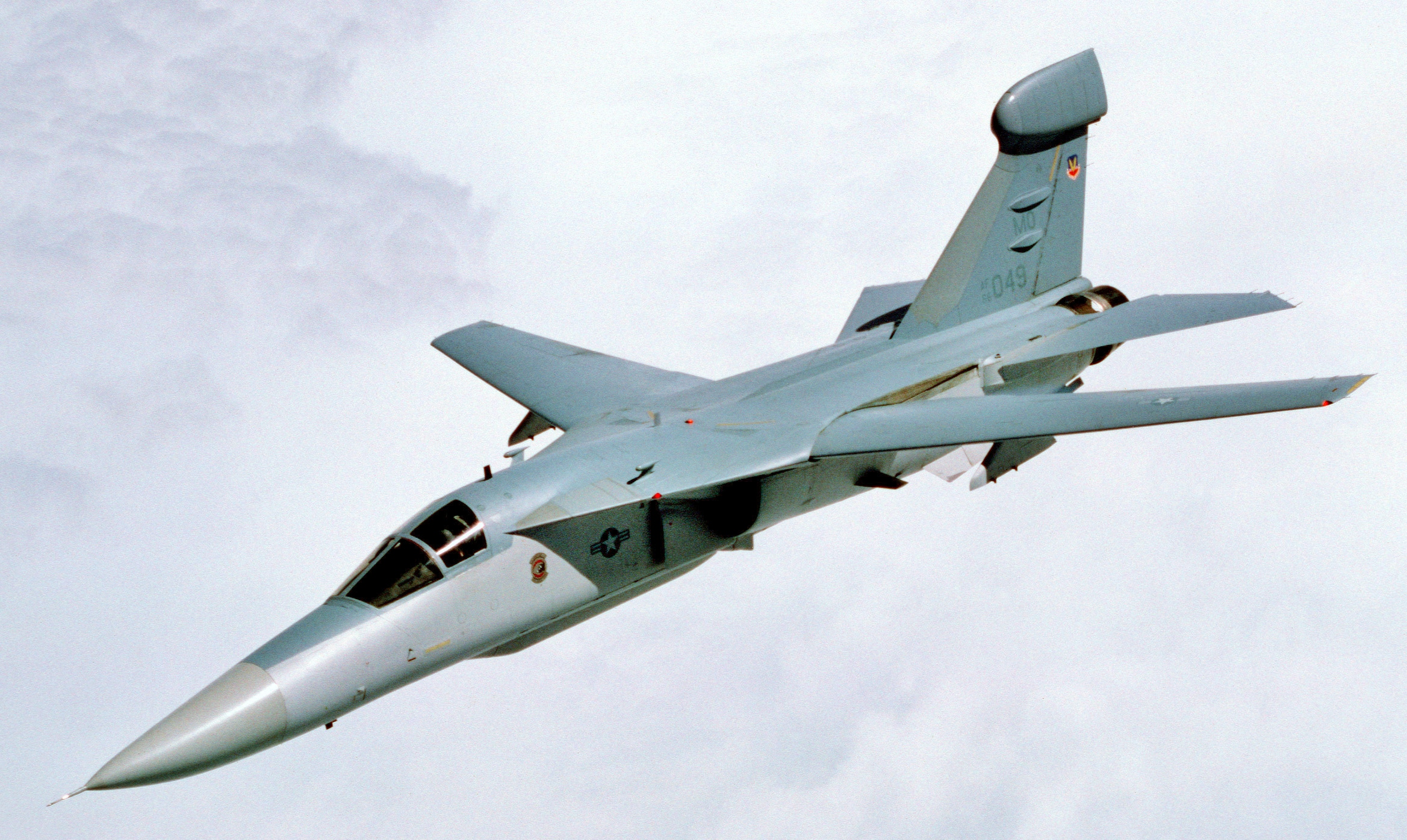 An EF-111A Raven aircraft supplies radar jamming support while enroute to Eglin Air Force Base during the multi-service Exercise Solid Shield '87.